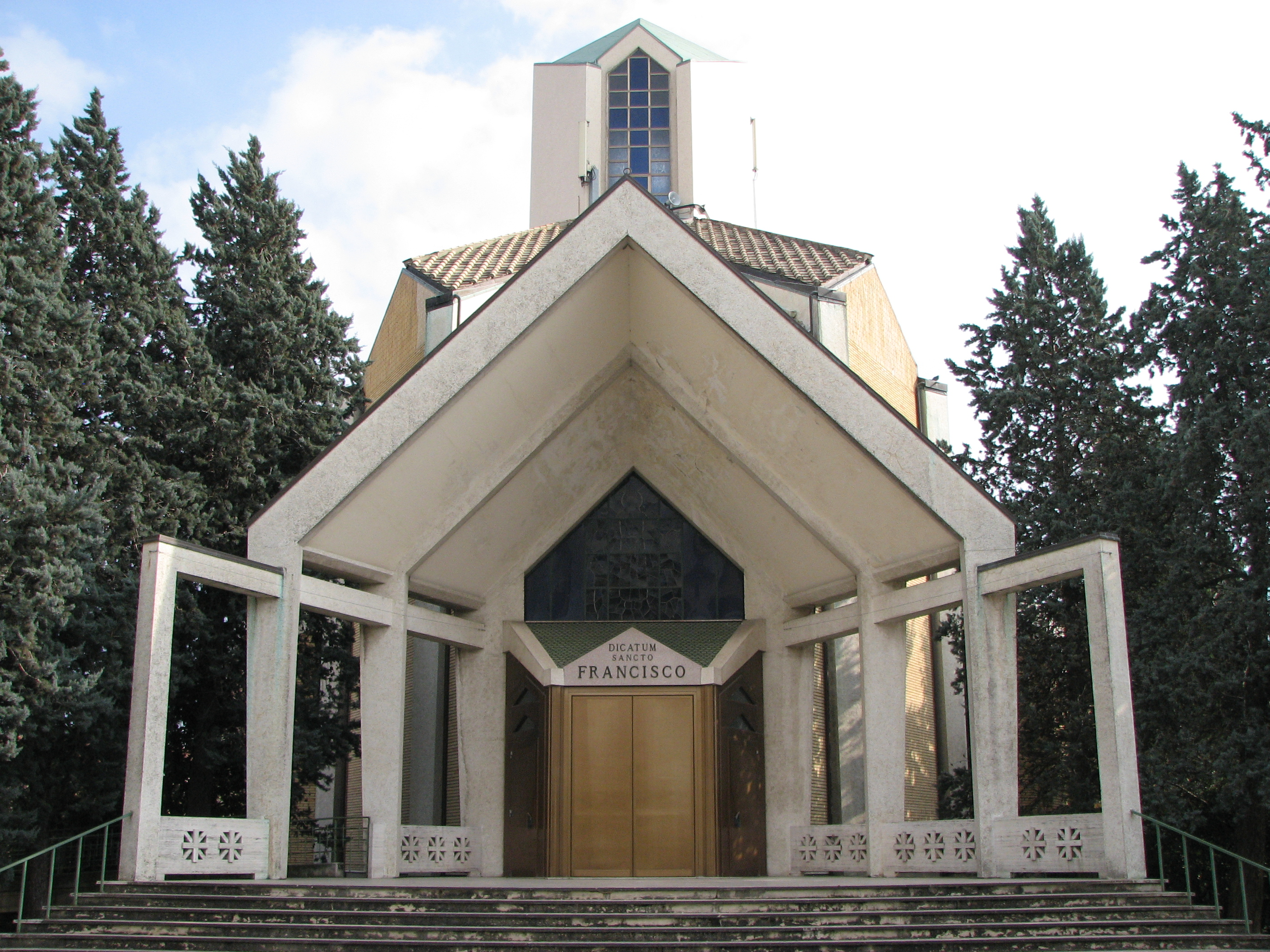 Church of St. Francis of Assisi in Macerata, Italy